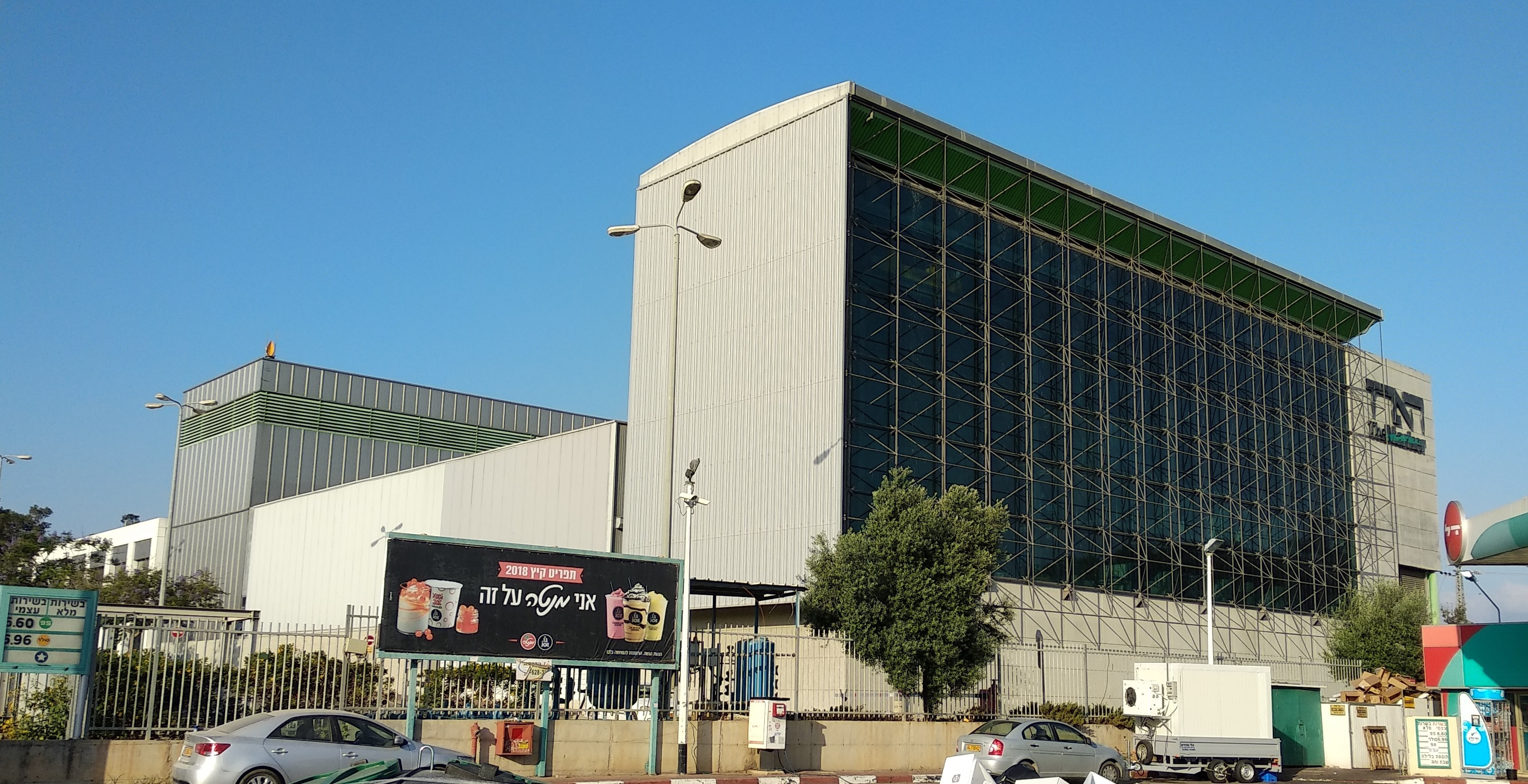 Haaretz press,Tel Yitzhak